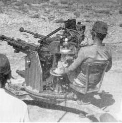 Imperial Japanese Army Type 2 20 mm Twin AA machine cannon